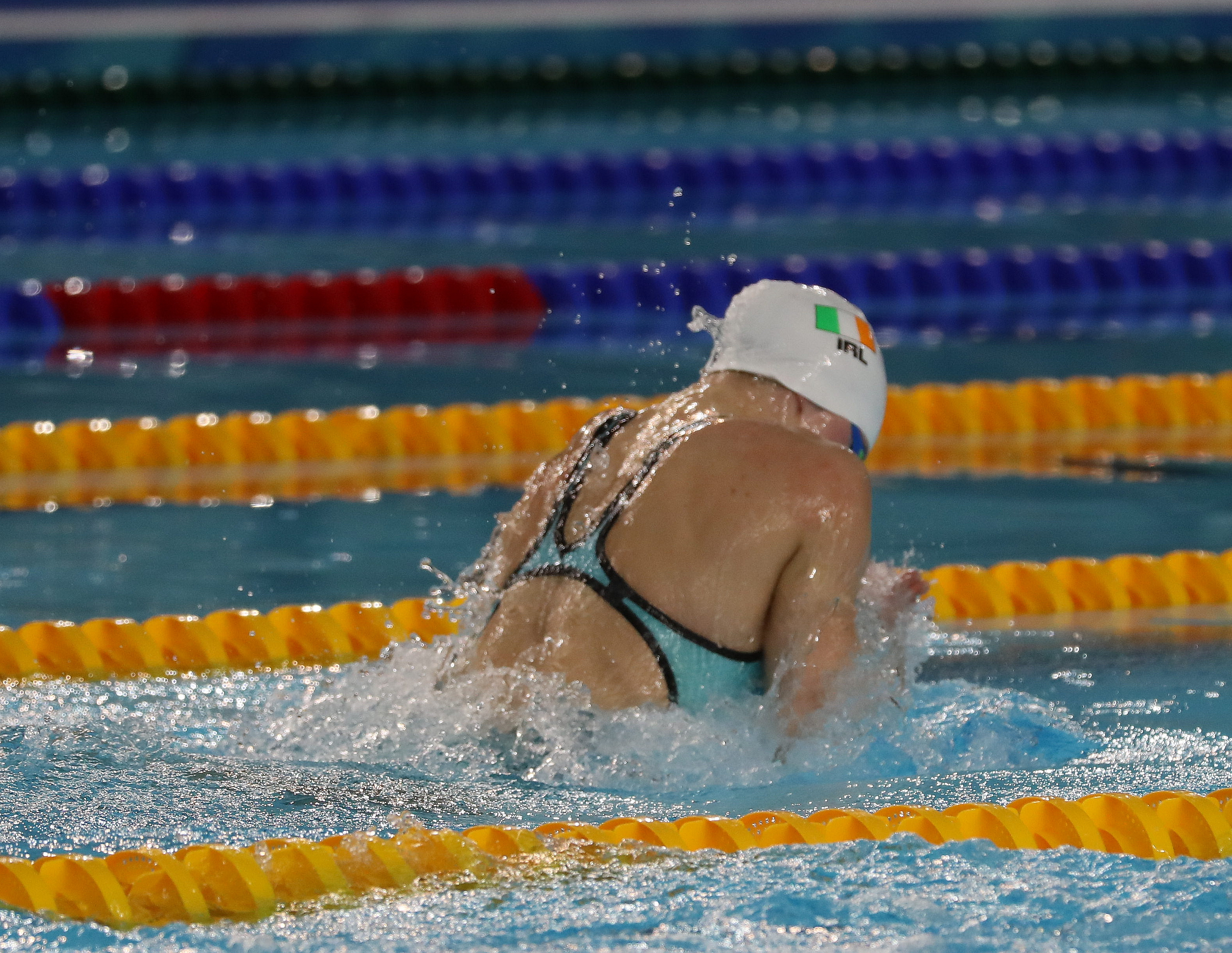 Swimming of girls' 50 m breaststroke semifinal 1 at the 2018 Summer Youth Olympics in Buenos Aires on 7 October 2018.